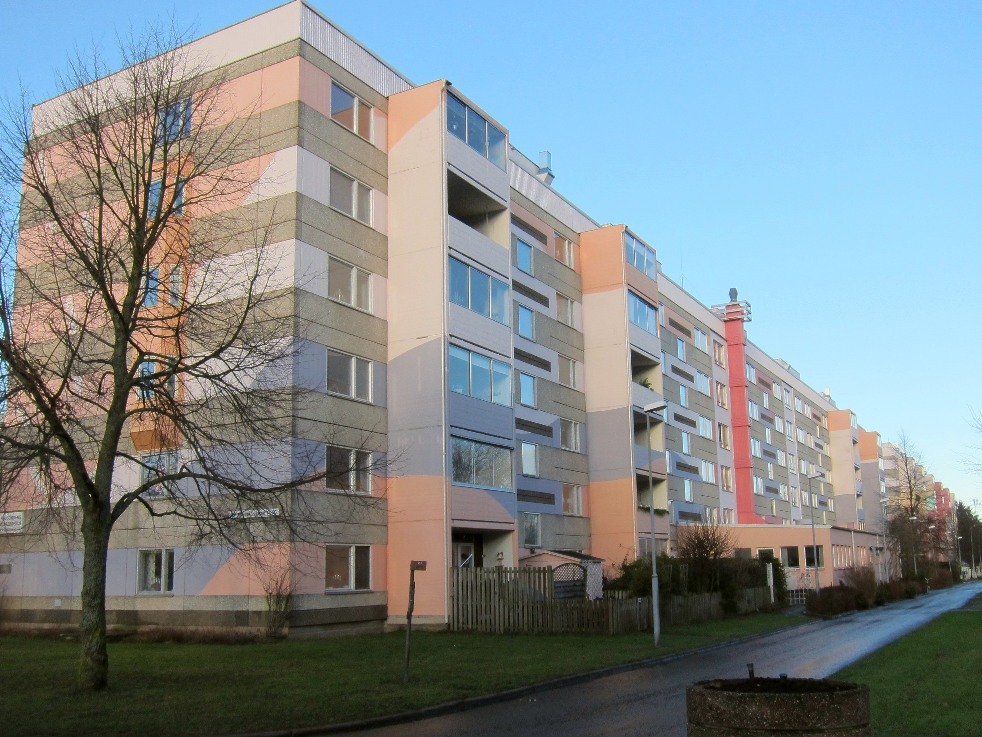 Råslätt